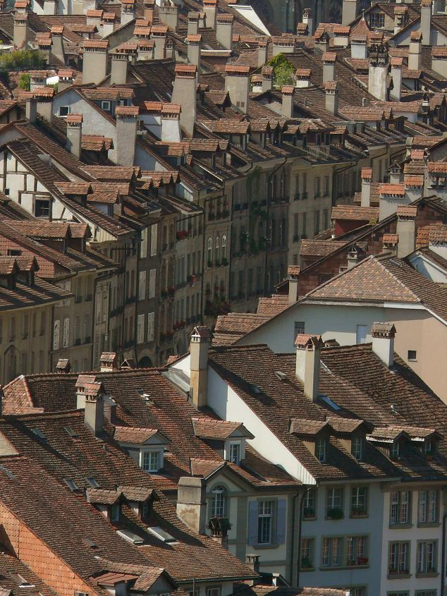 View on medieval houses of Berne